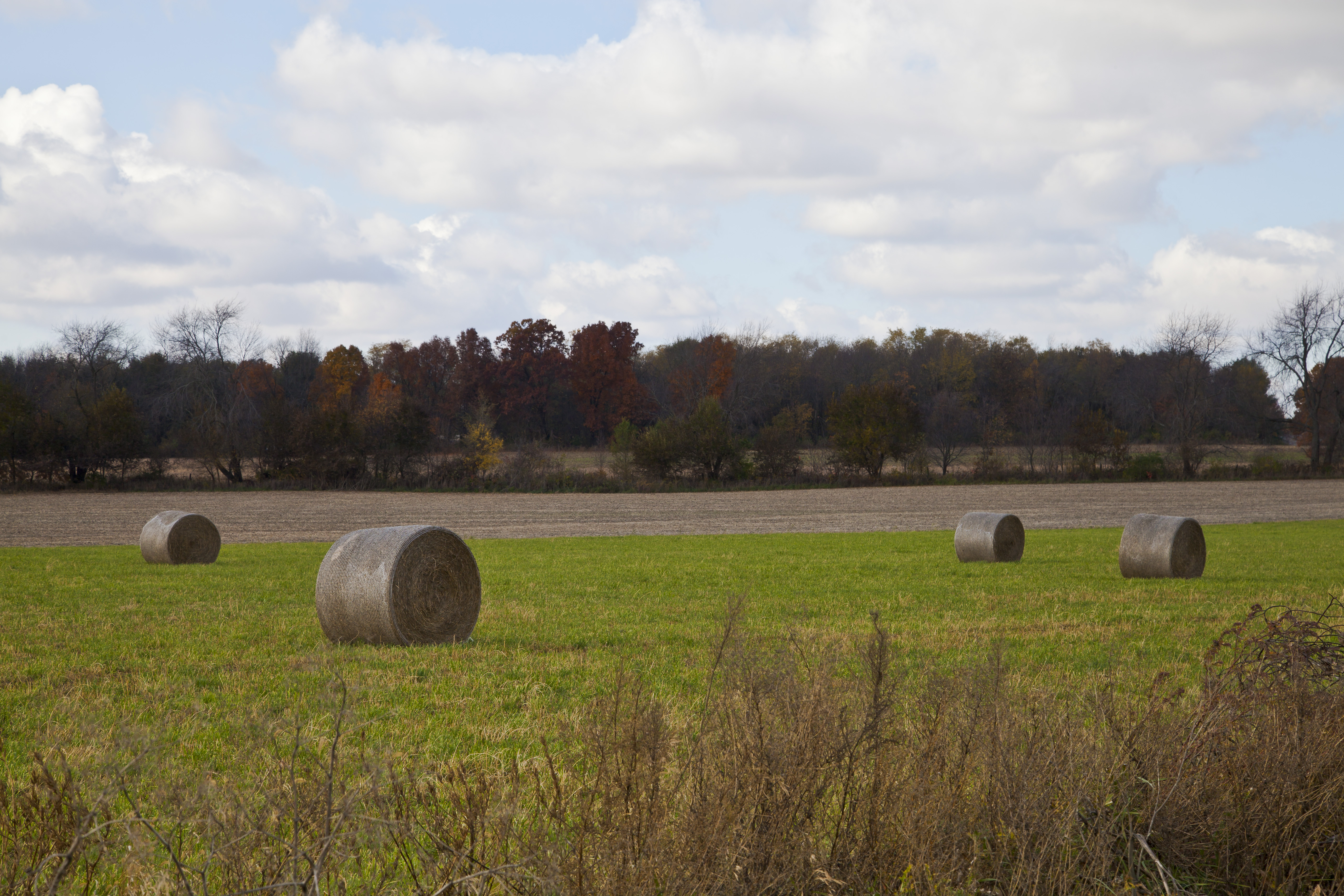 Round straw bales, Walker, Indiana, USA